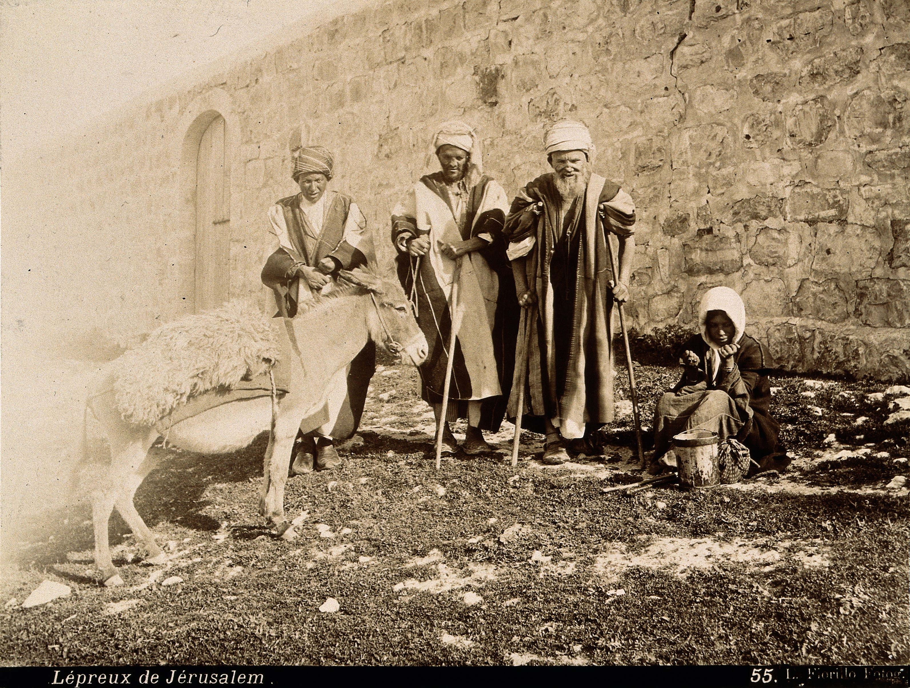 A group of lepers in Jerusalem: three standing men with sticks, a woman crouching next to a small bucket, and a mule. Photograph. Iconographic Collections Keywords: L. Fiorillo Fotog..